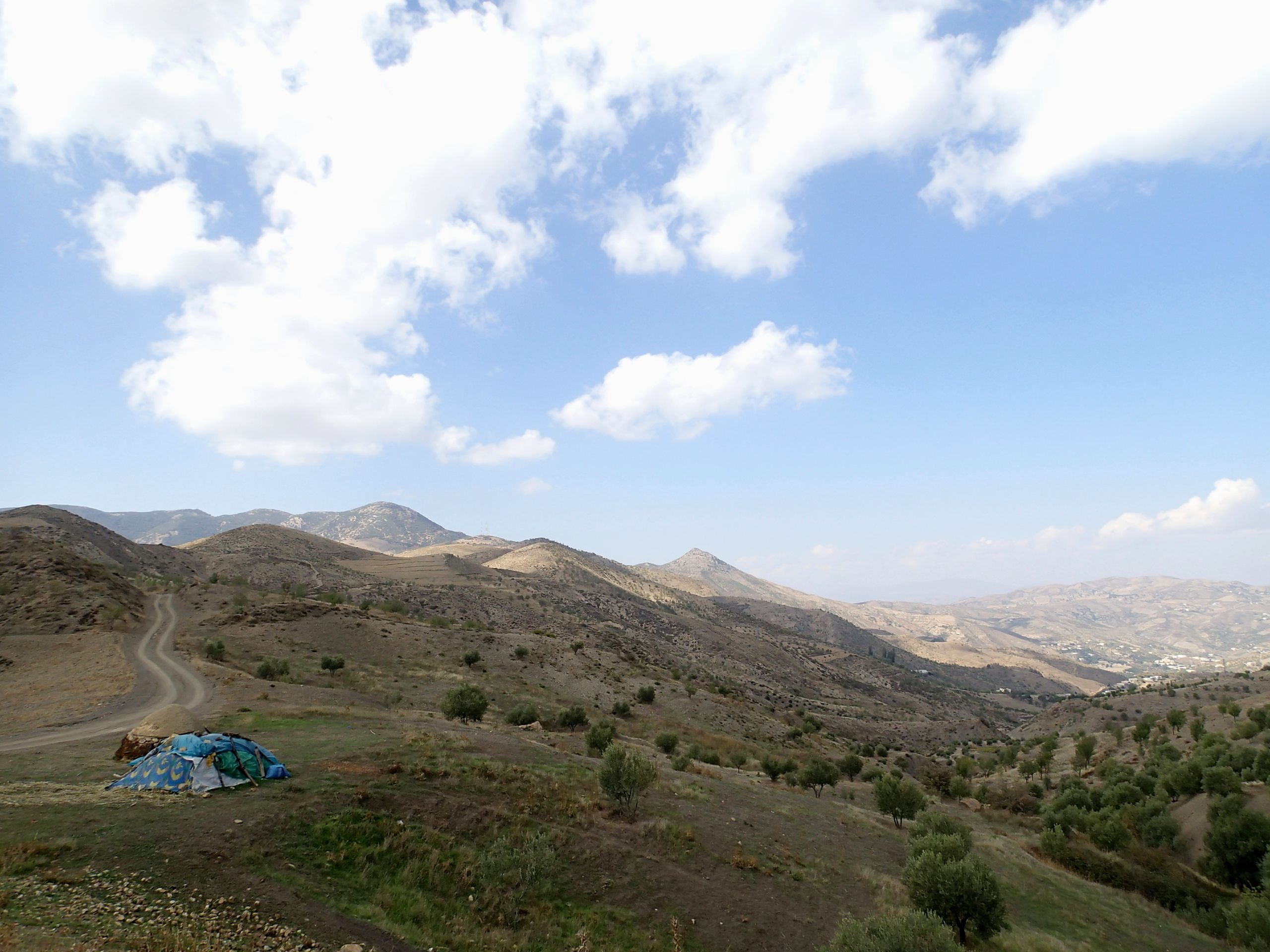 View on some Igzenayen mountains. At the bottom right, view on the city of Aïn Hamra.